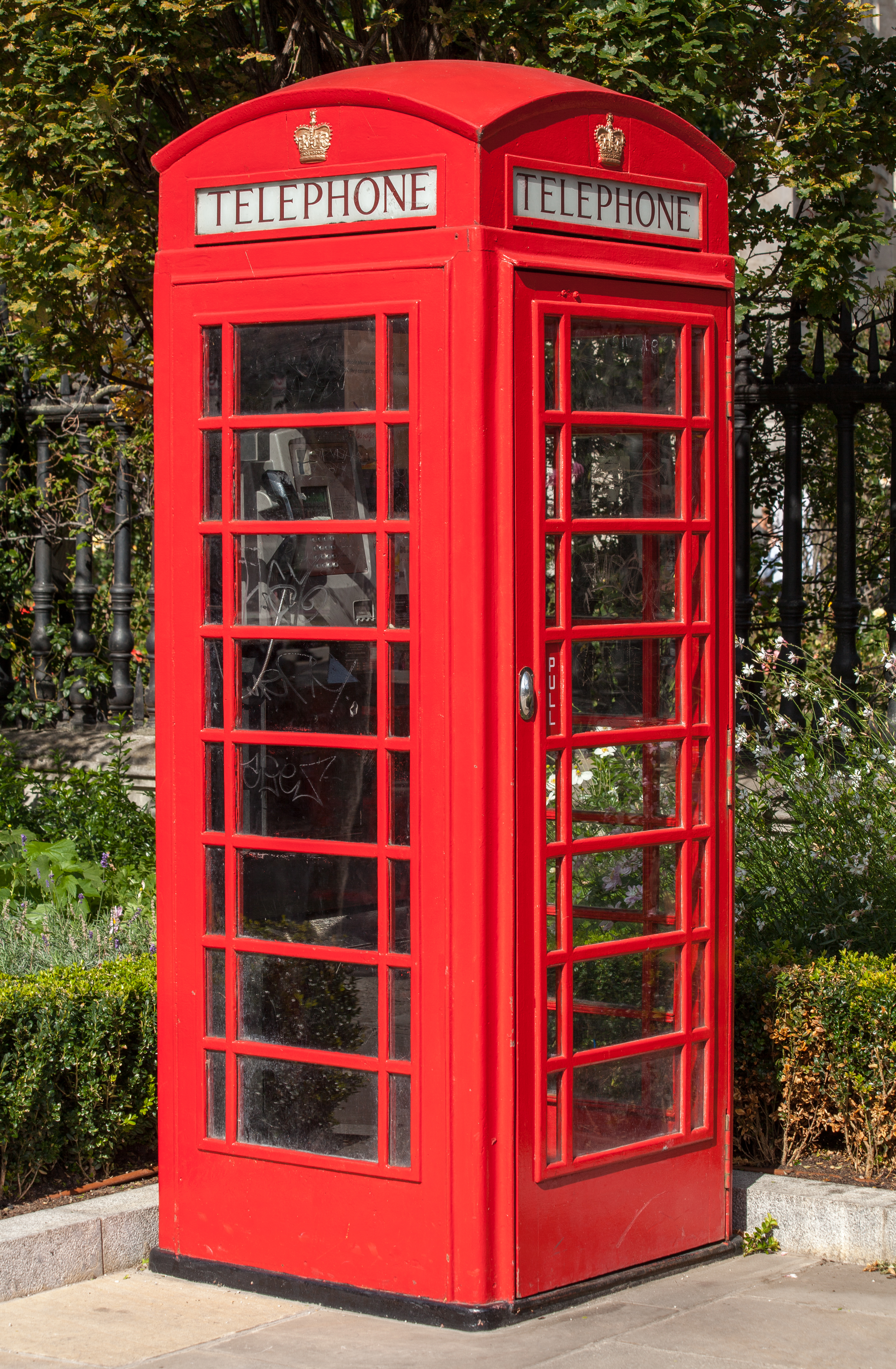 A red telephone box in front of St Paul's Cathedral, London, United Kingdom.